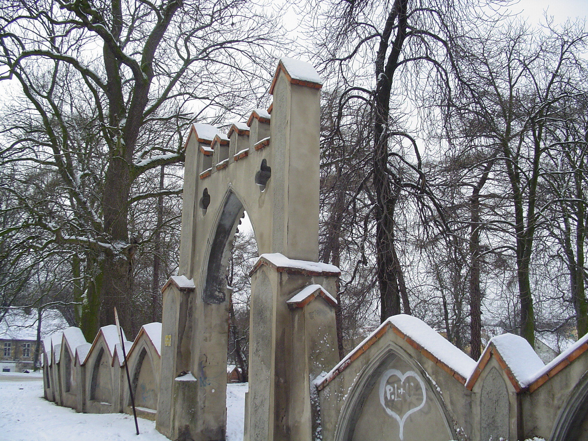 Fence of the Garden (in Opatówek)